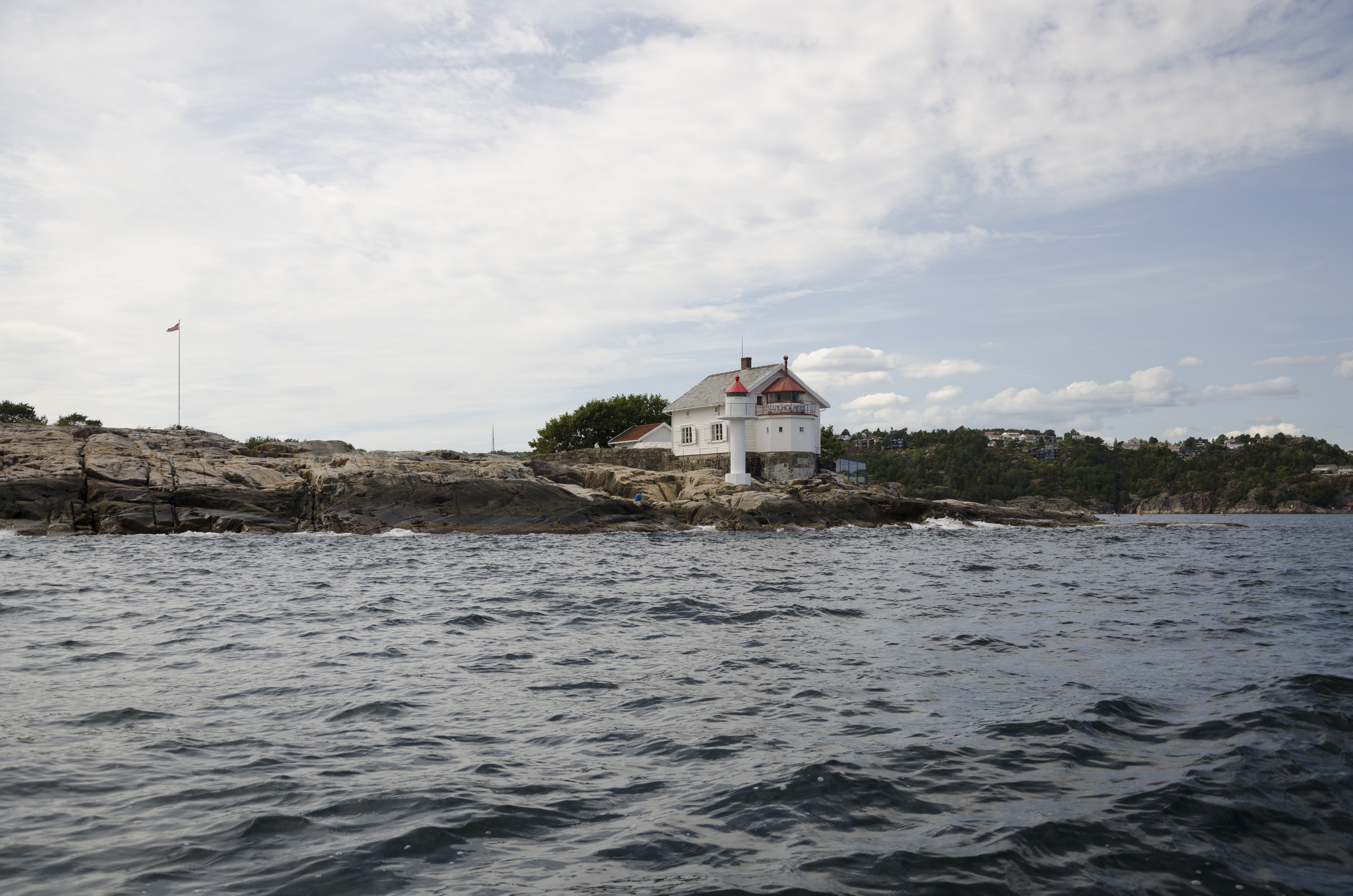 The lighthouse at Stangholmen outside Risør, Norway.